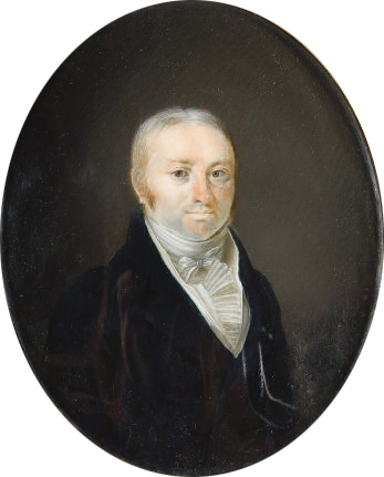 'Jean Conrad Hottinguer' 1817 cleaned by Rod.H sept 1941.' miniature on ivory oval, 95 x 75 mm